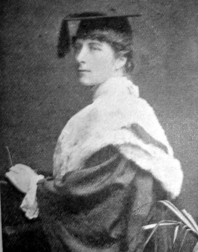 Photograph from Banba, 1903. In public domain due to age.